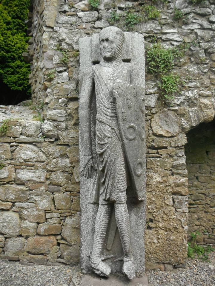 the most remarkable feature is the effigy of Cantwell Fada from mid 13th to early 14th century.